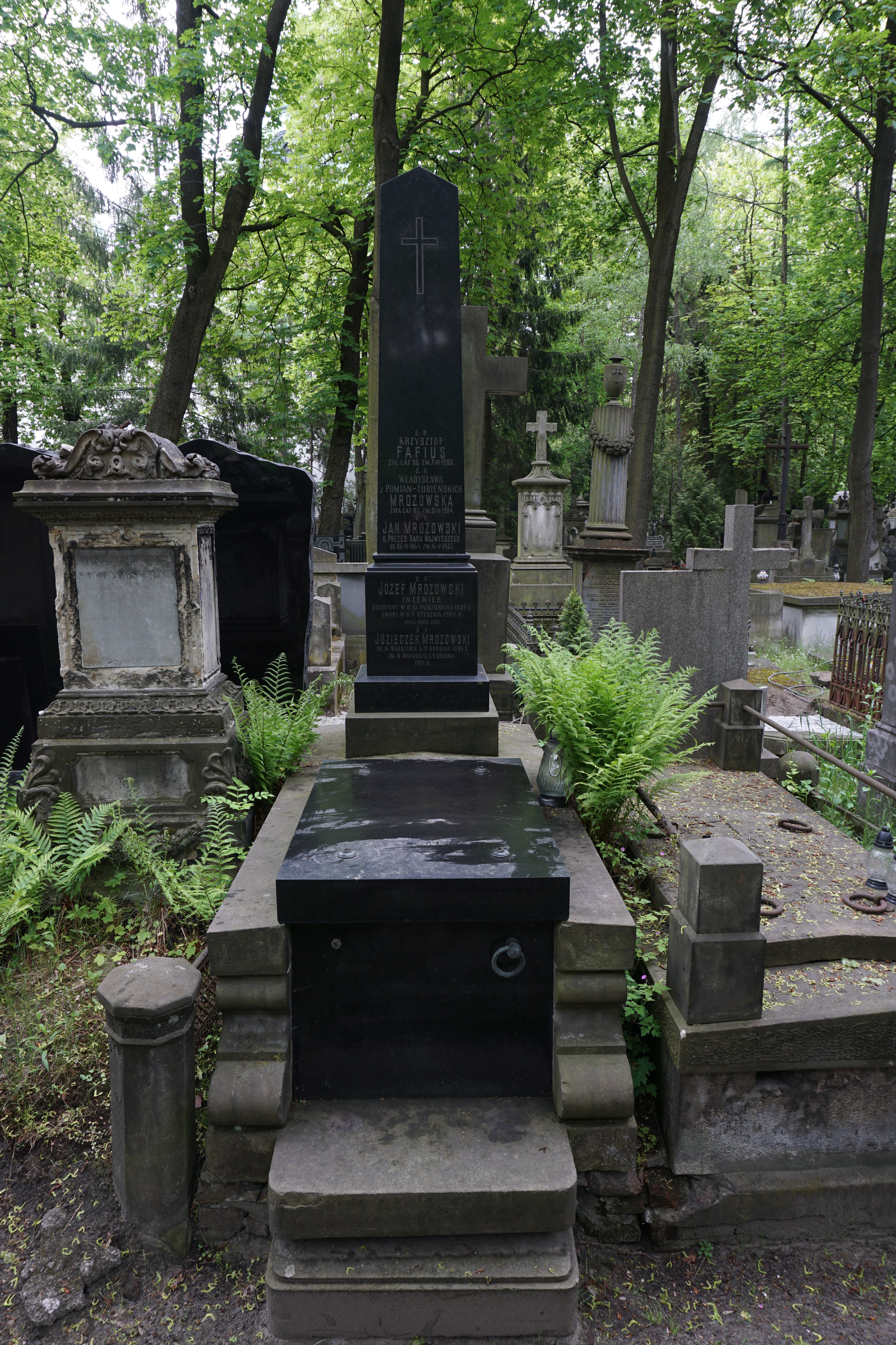 The grave of Jan Mrozowski at the Powązki Cemetery (section 15, row 4, grave 18)